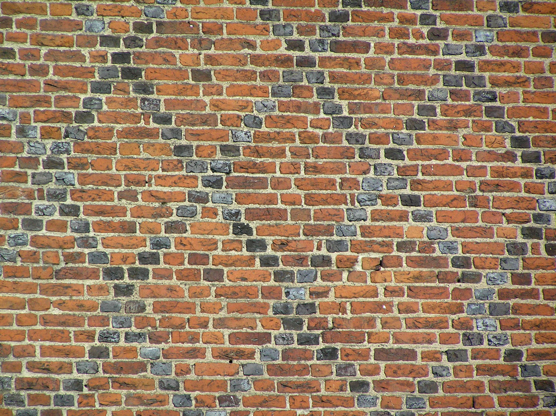 Radzyń Chełmiński, Teutonic Knights castle, walls decorated with black, strongly fired bricks.